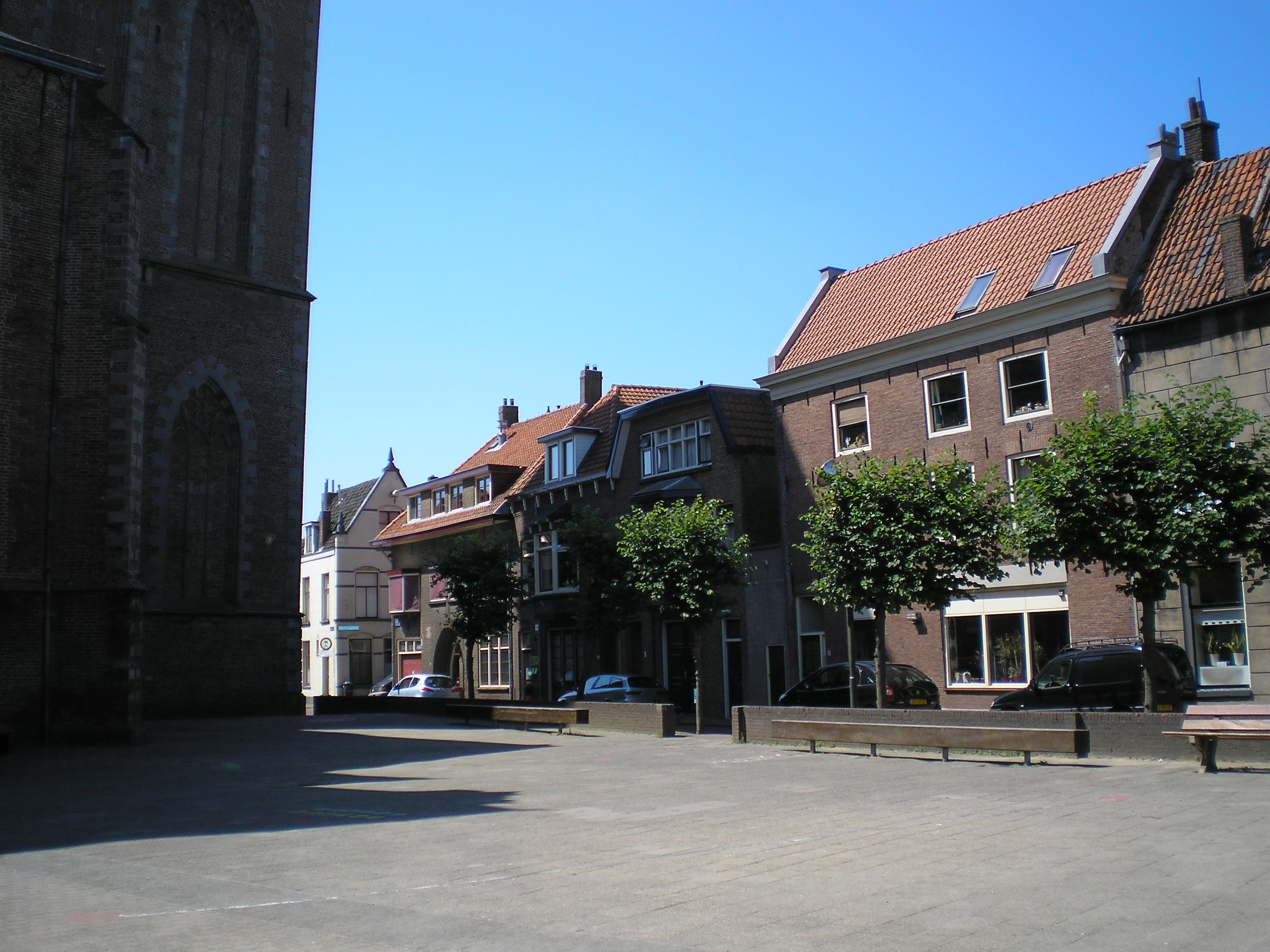 Kerkstraat in Kampen in the Netherlands